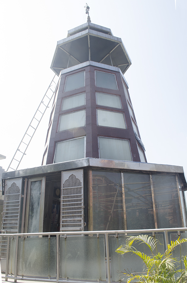 Kacher Mandir, Cassipore